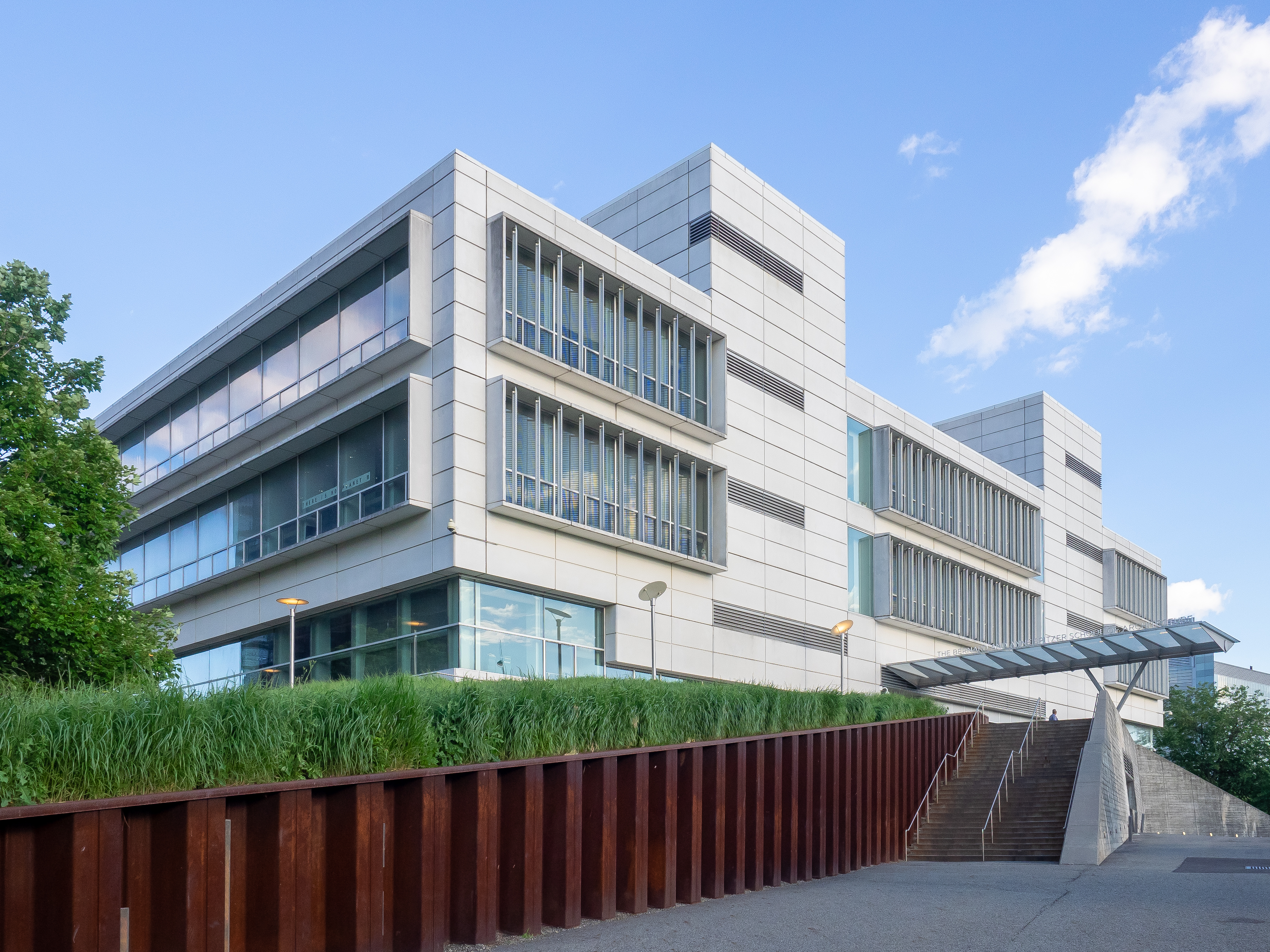 Hamilton Heights, Manhattan, NYC